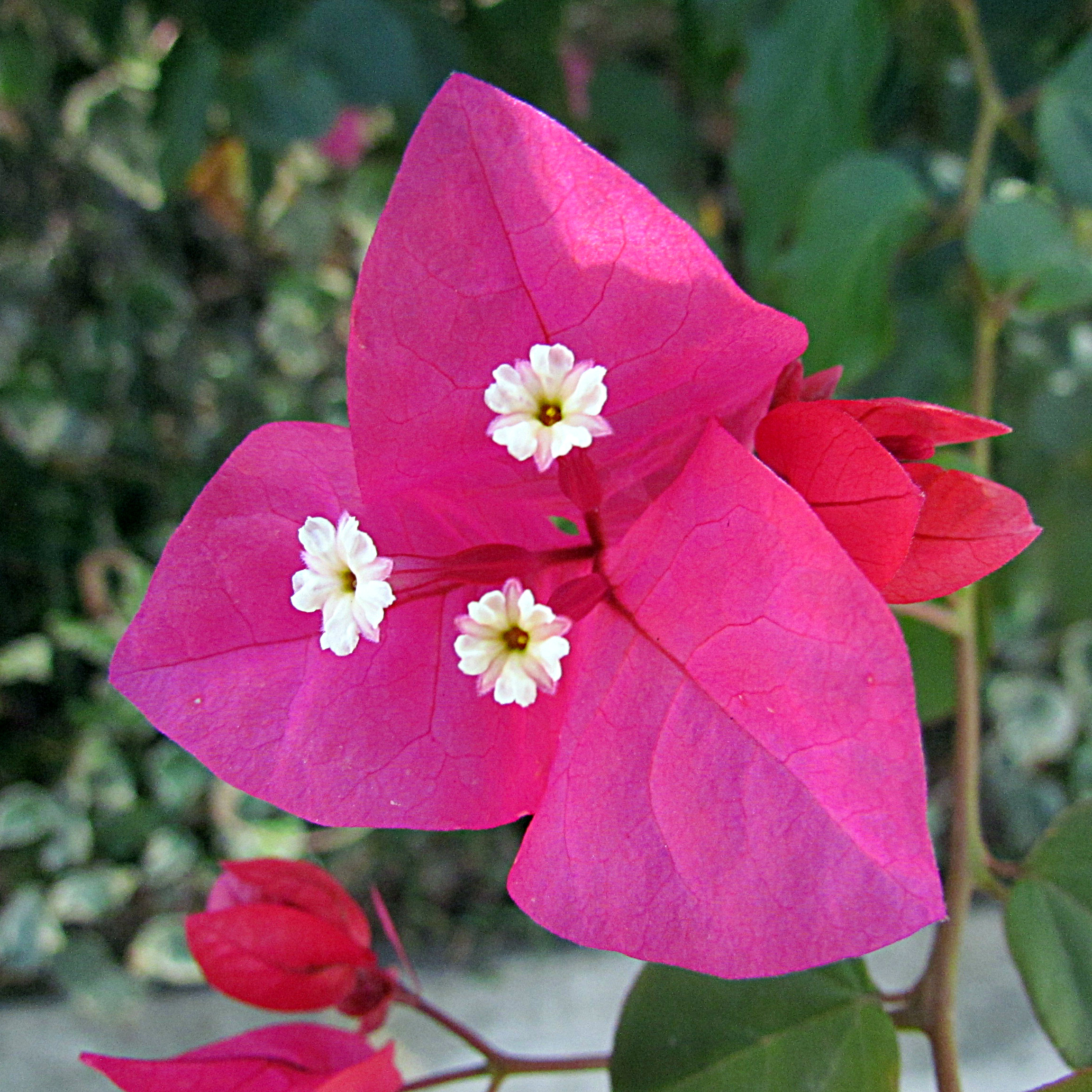 Bougainvillea spectabilis bracts